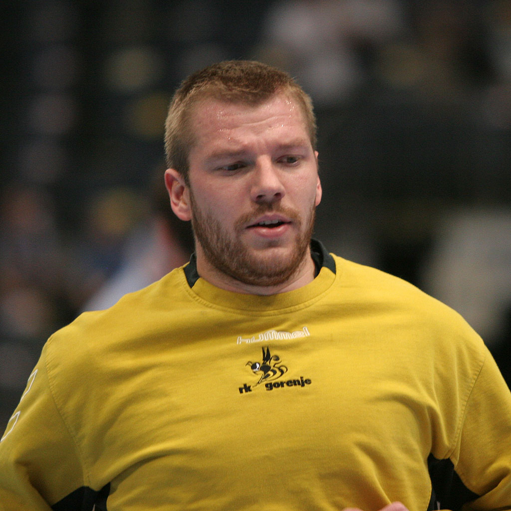 Matjaž Mlakar, slovenian handball player. Prior the final EHF Cup game on June 1st 2009, VfL Gummersbach vers. RK Velenje in Cologne´s Lanxess arena.